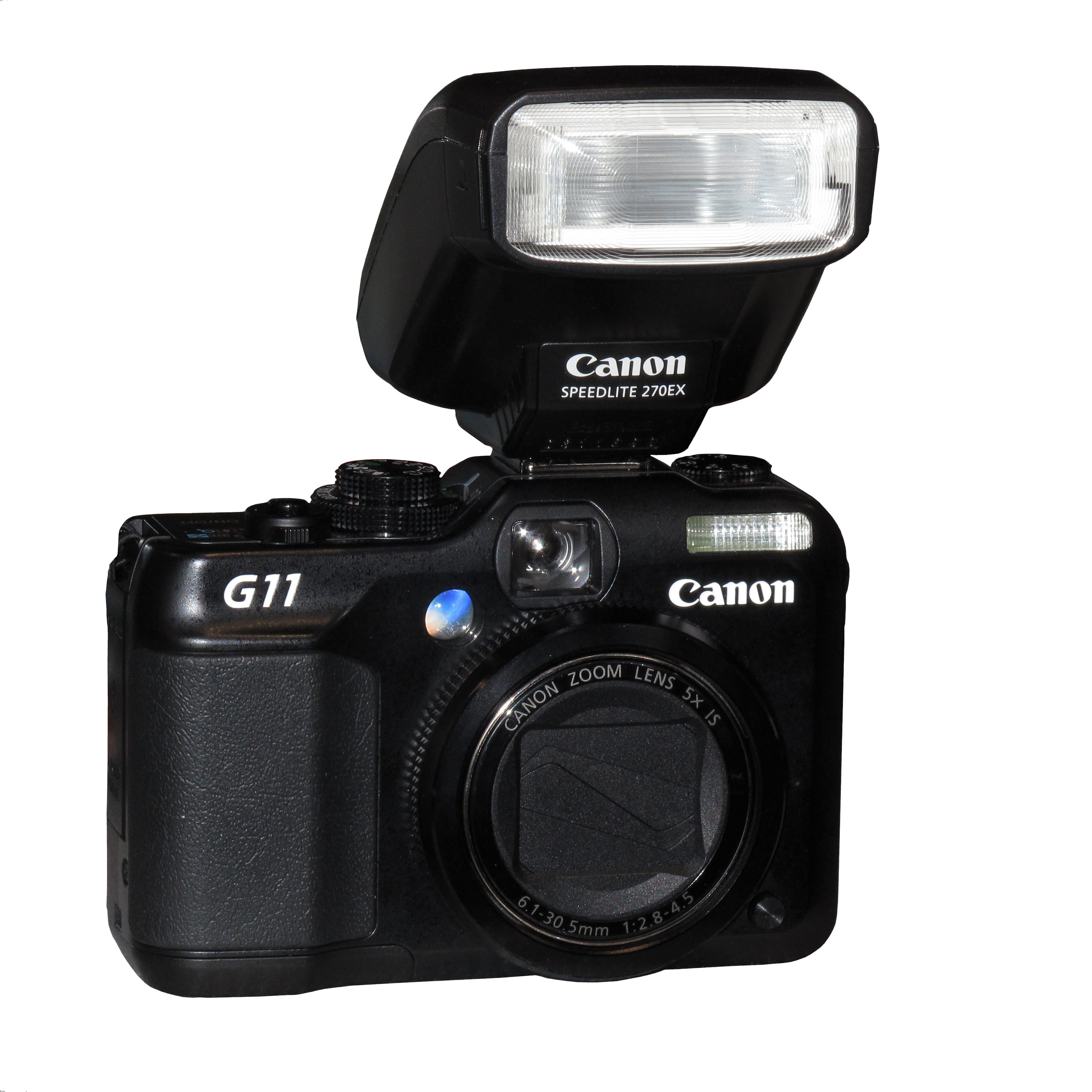 Canon PowerShot G11